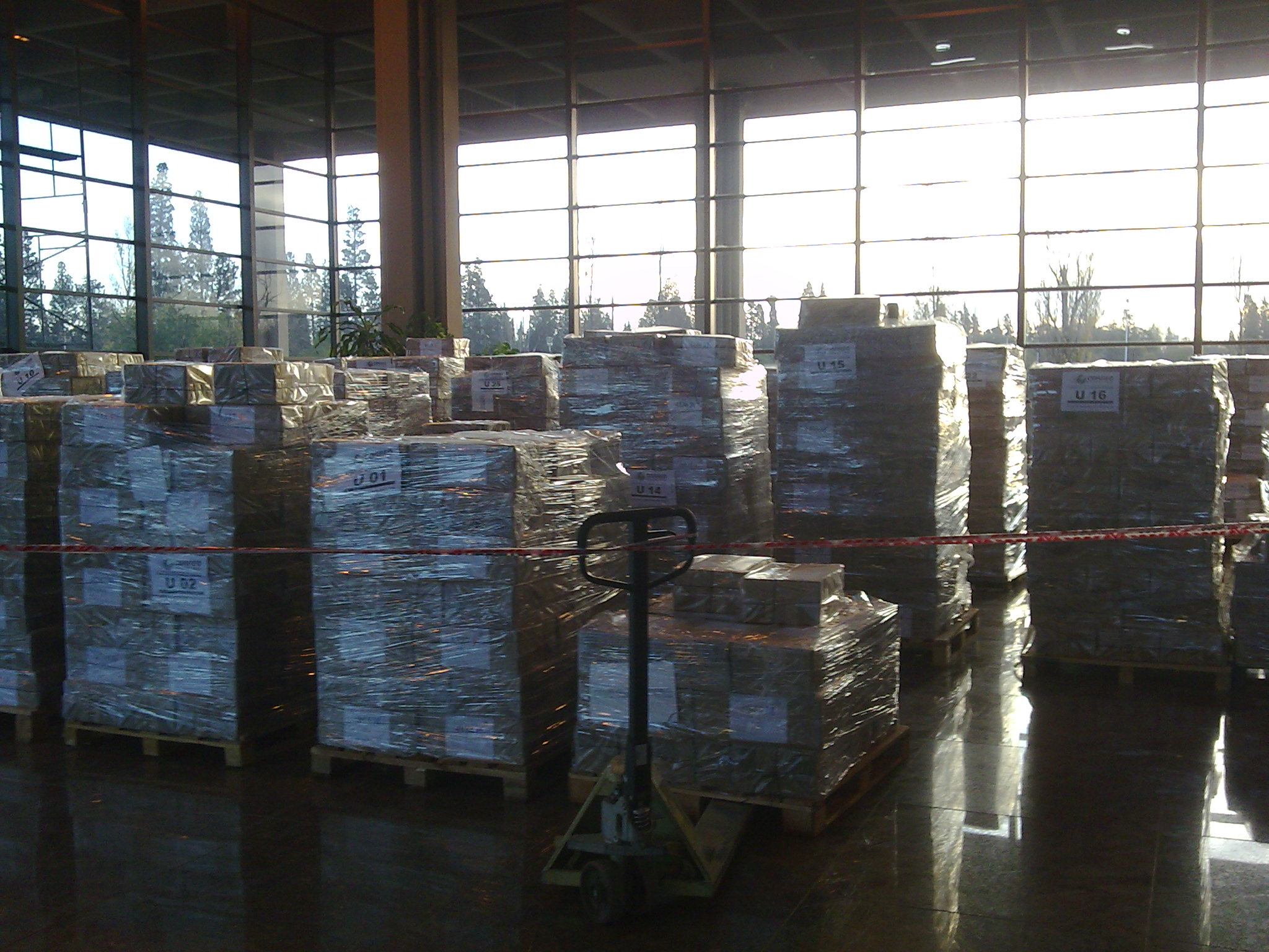 Preparations in Cordoba, Argentina, for National Elections of June 28, 2009. The urns were kept in the electoral junta of Cordoba province, until polling day.